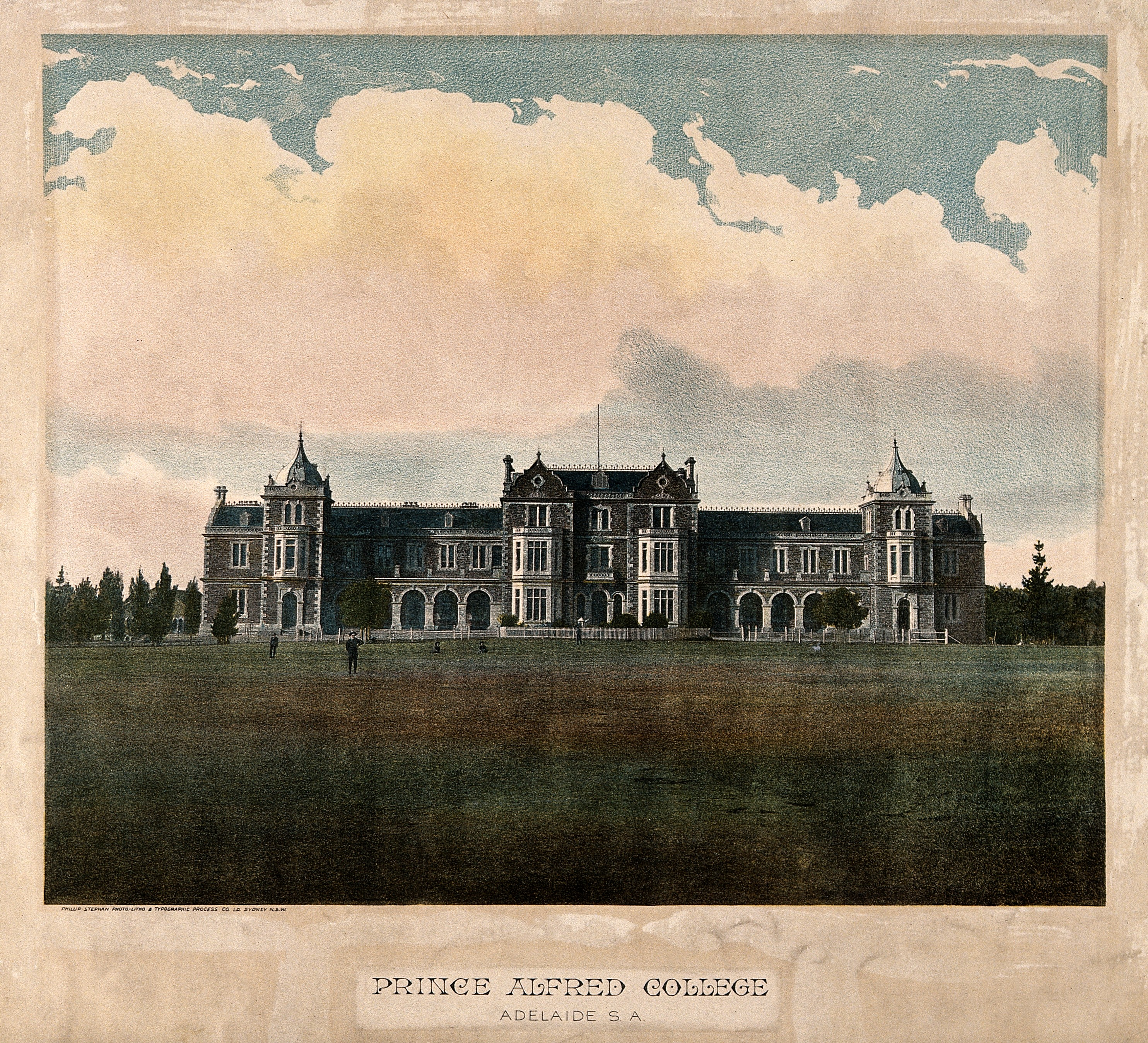 Facade and grounds of Prince Alfred college, Adelaide. Coloured lithograph by Phillip - Stephan. Iconographic Collections Keywords: Prince Alfred college (Adelaide, Australia)